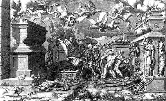 Vision of Ezekiel